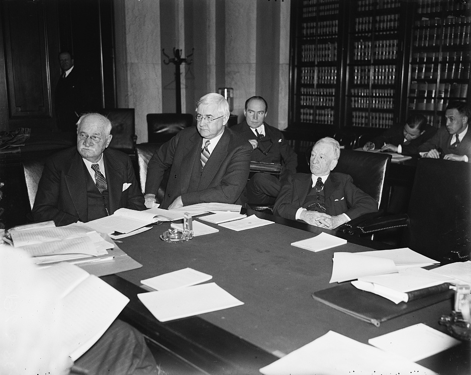 Money experts. When Jesse Jones, center, chairman of the RFC, appeared before the Senate Banking and Currency Committee Wednesday to urge continuation of the RFC, he faced outstanding experts on banking matters. On the left of the pictures is Sen. Duncan Fletcher.